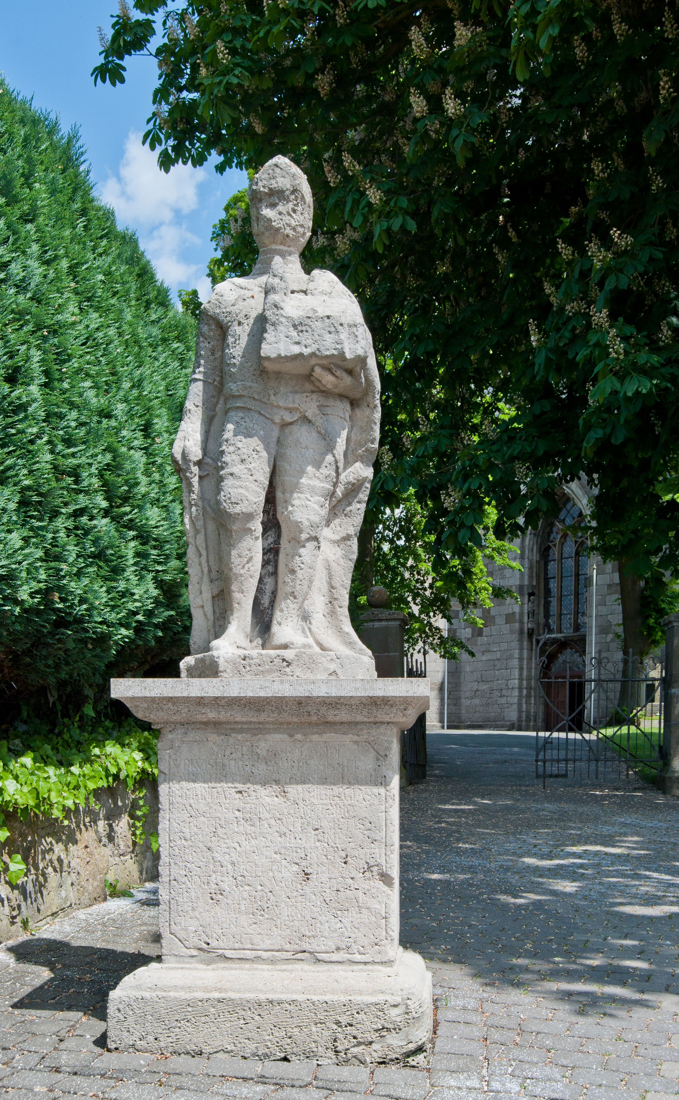 Statue of Roland (Frankish military leader, died 778) - Obermarsberg, a suburb of Marsberg, North Rhine-Westphalia, Germany This image shows a heritage building in Germany, located in the North Rhine-Westphalian city Marsberg (no. 47). This photograph was taken with a Nikon D3000